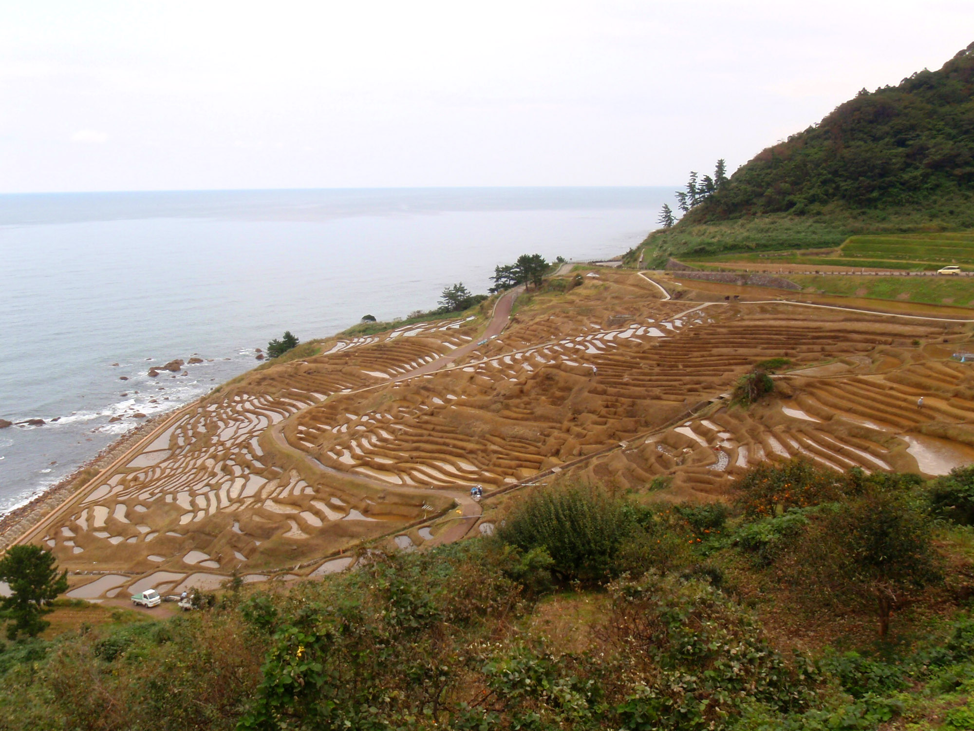 Shiroyone rice terraces, Noto peninsula